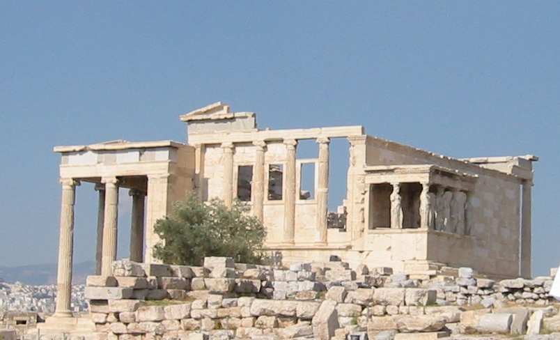 The Erechtheum at the Acropolis, Athens.